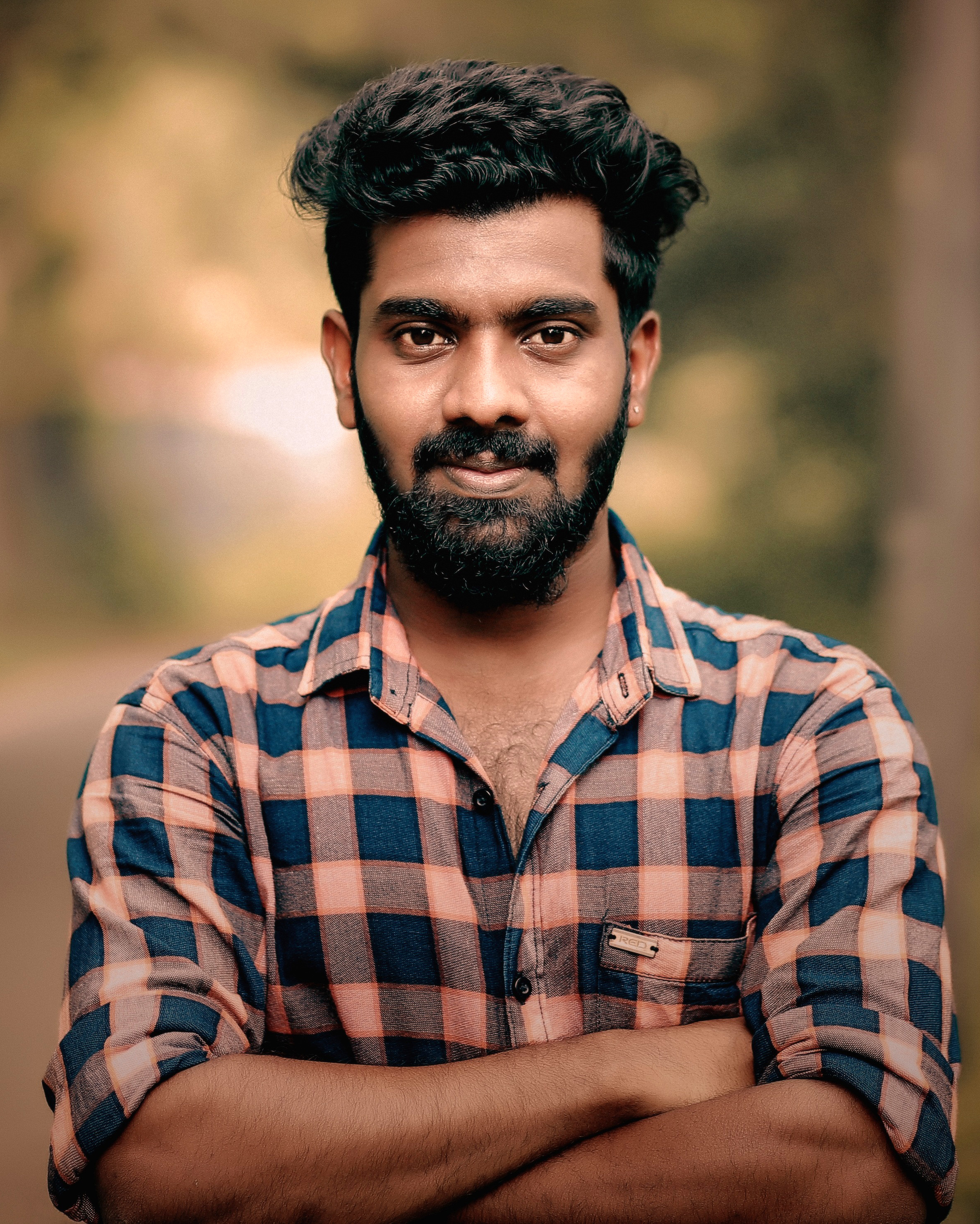 A man with a beard, outdoors, with his arms crossed.